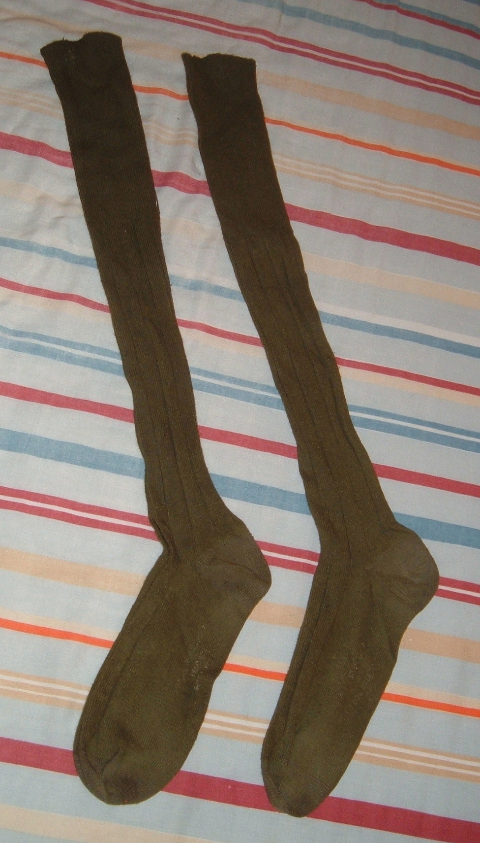 pair of stockings. One of a series of common objects I photographed in the summer of 2005 to illustrate Basic English picture wordlist. --agr 21:08, 3 August 2005 (UTC)